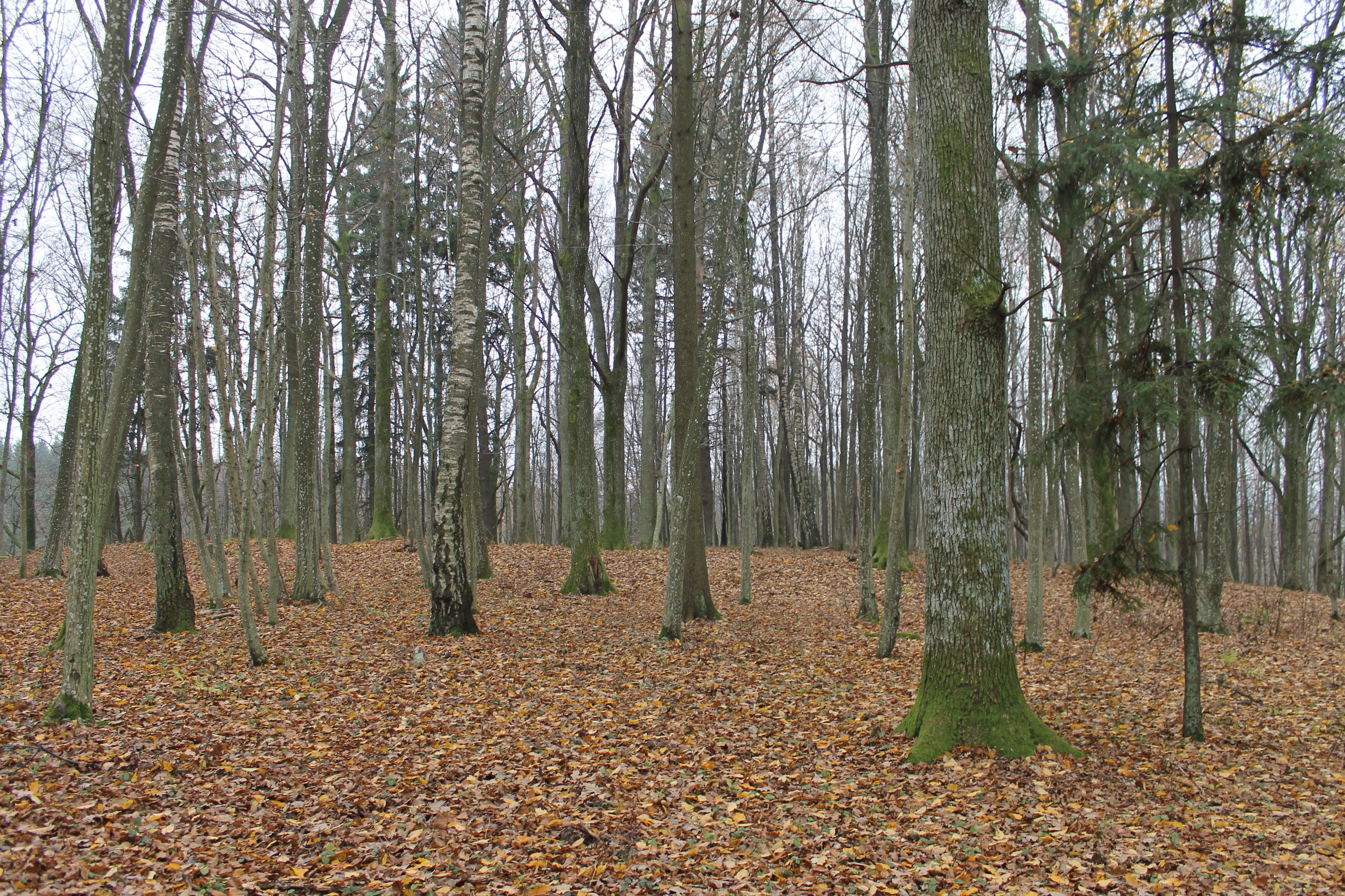 Kalno Grikštai Hillfort, Kretinga District Municipality, LithuaniaLietuvių: Kalno Grikštų I piliakalnis, Kretingos rajono savivaldybė, Lietuva